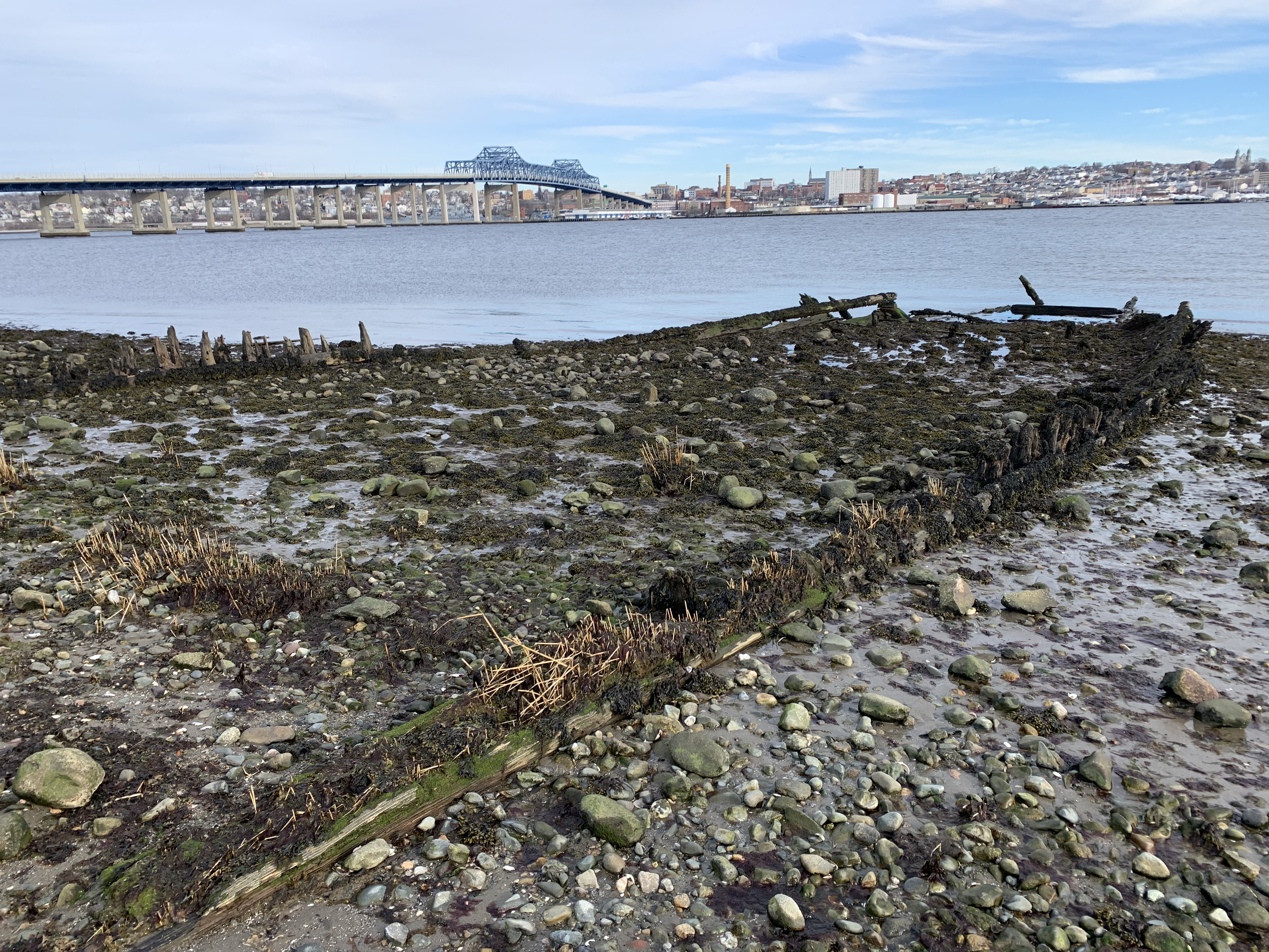 A view of the wreck of the City of Taunton steamship on March 14th, 2020, looking at it from the port bow. Time is 5:00pm, and the tide is very low.